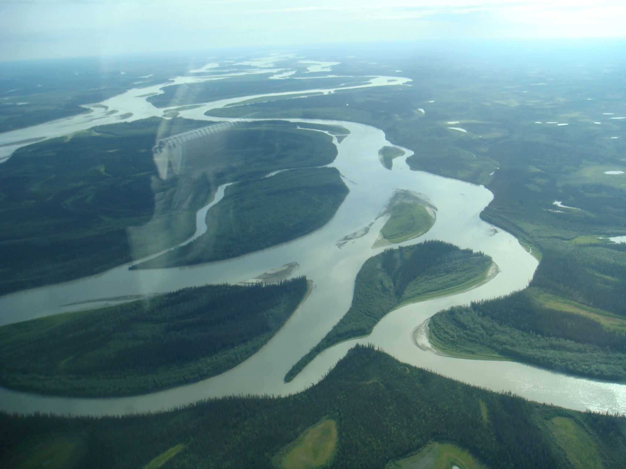 Aerial view of the Yukon River, to arctic village